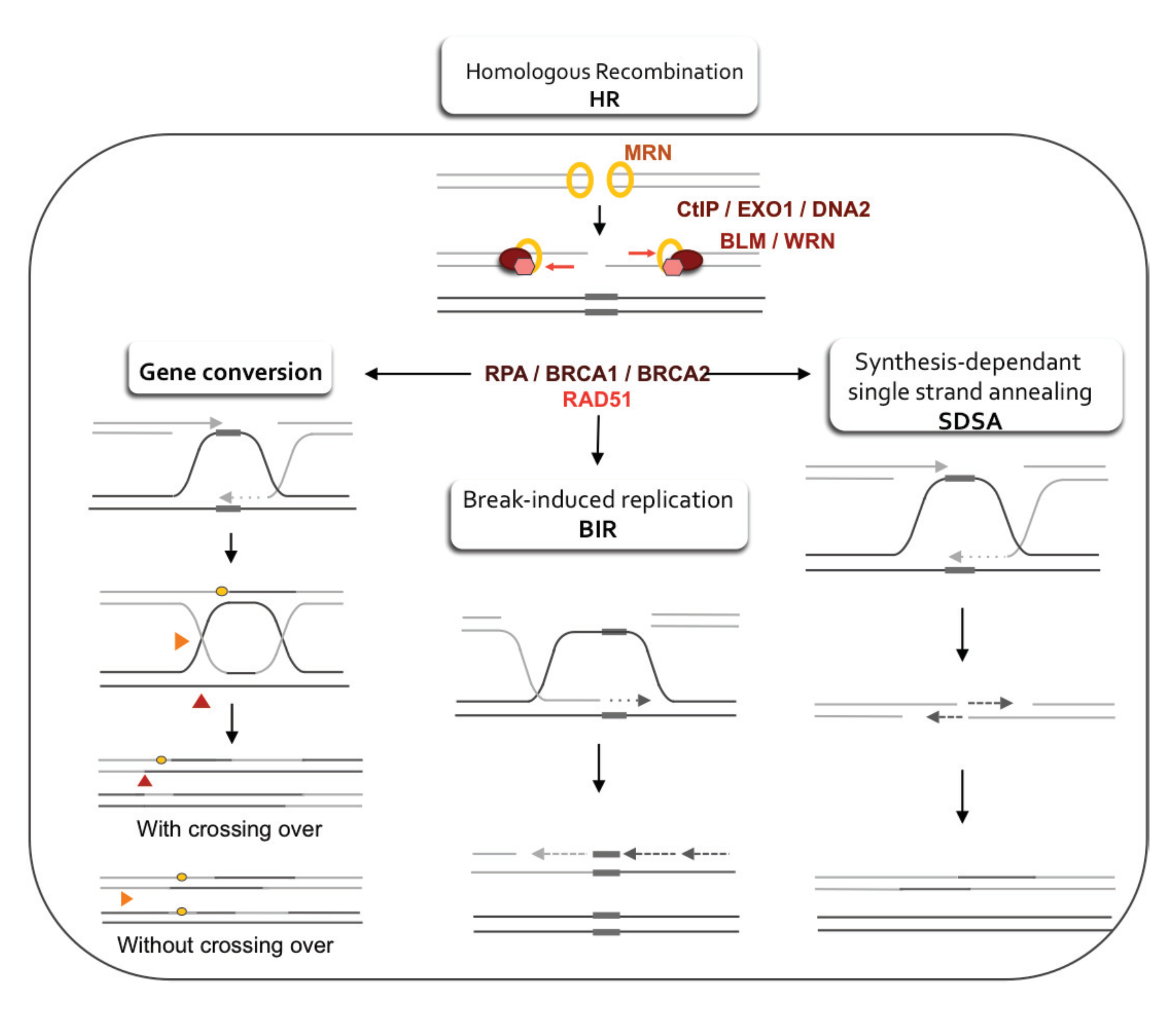 Left panel: Gene conversion. After resection, the single-stranded 3' tail invades a homologous, intact double-stranded DNA, forming a D-loop (displacement loop). This process tolerates a limited number of imperfect sequence homologies, thus creating heteroduplex intermediates bearing mismatches (yellow circles). The invading 3'-end primes DNA synthesis, which then fills in the gaps. The cruciform junctions (Holliday junctions, HJ) migrate. Resolution (or dissolution) of HJs occurs in two different orientations (orange or red triangles), resulting in gene conversion either with or without crossing over. Middle panel: Break-induced replication (BIR). The initiation is similar to that of the previous models, but the synthesis continues over longer distances on the chromosome arms, even reaching the end of the chromosome. Here, there is neither resolution of the HR nor crossover. Right panel: Synthesis-dependent strand annealing (SDSA). Initiation is similar to that of the previous model, but the invading strand de-hybridizes and re-anneals at the other end of the injured molecule; no HJ is formed.[1]